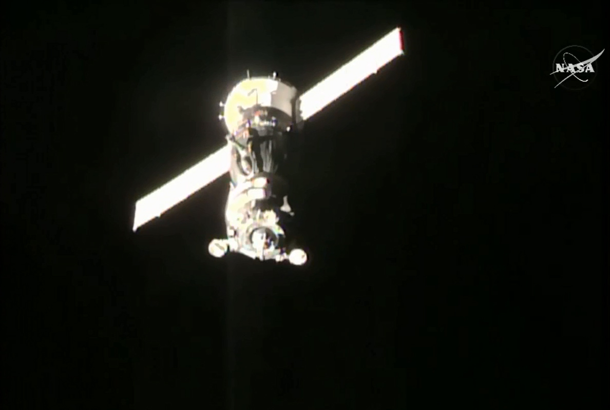 The Soyuz TMA-20M spacecraft approaches the International Space Station.